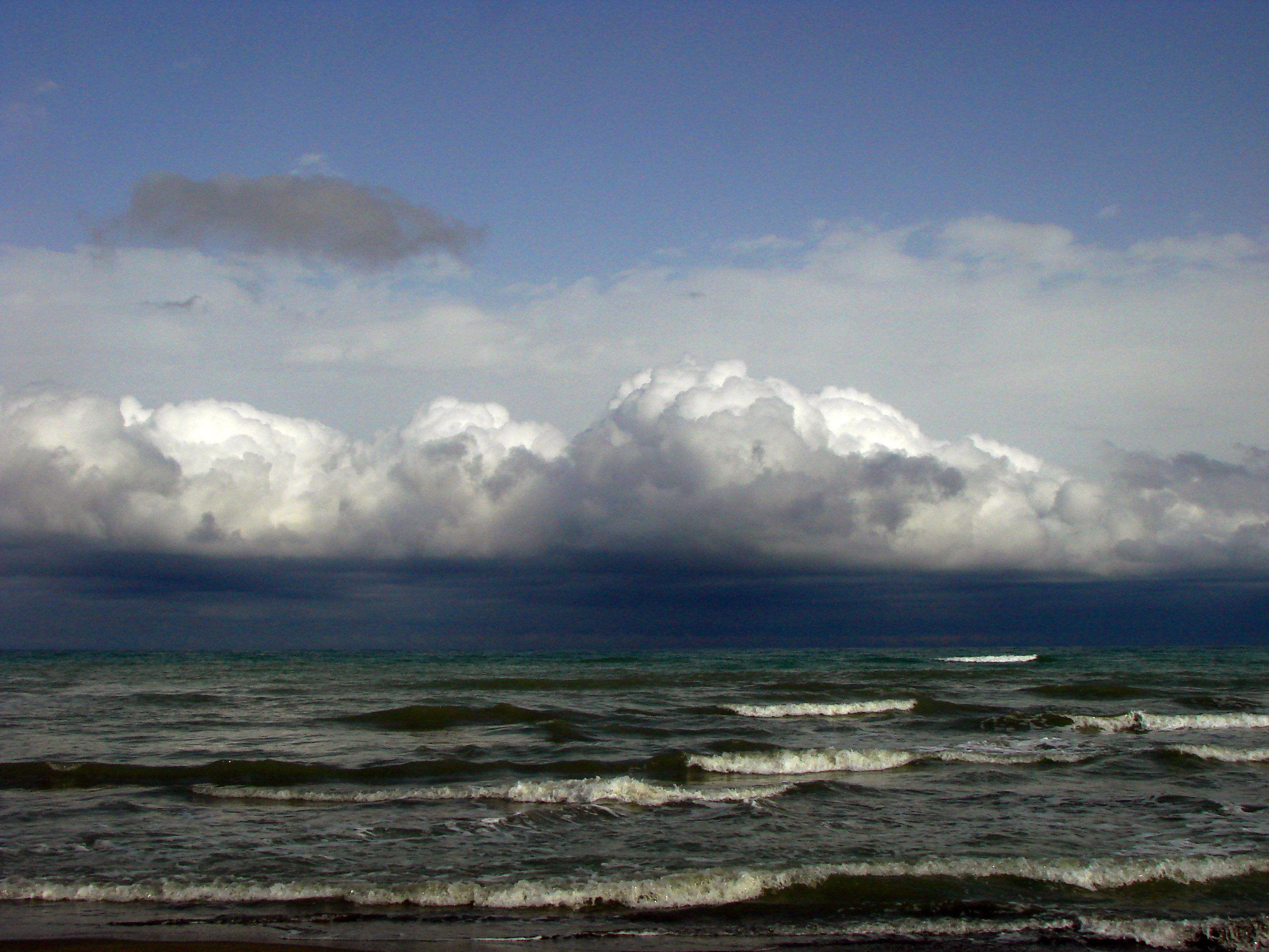 Mahmudabad is a city in and the capital of Mahmudabad County, Mazandaran Province, Iran.